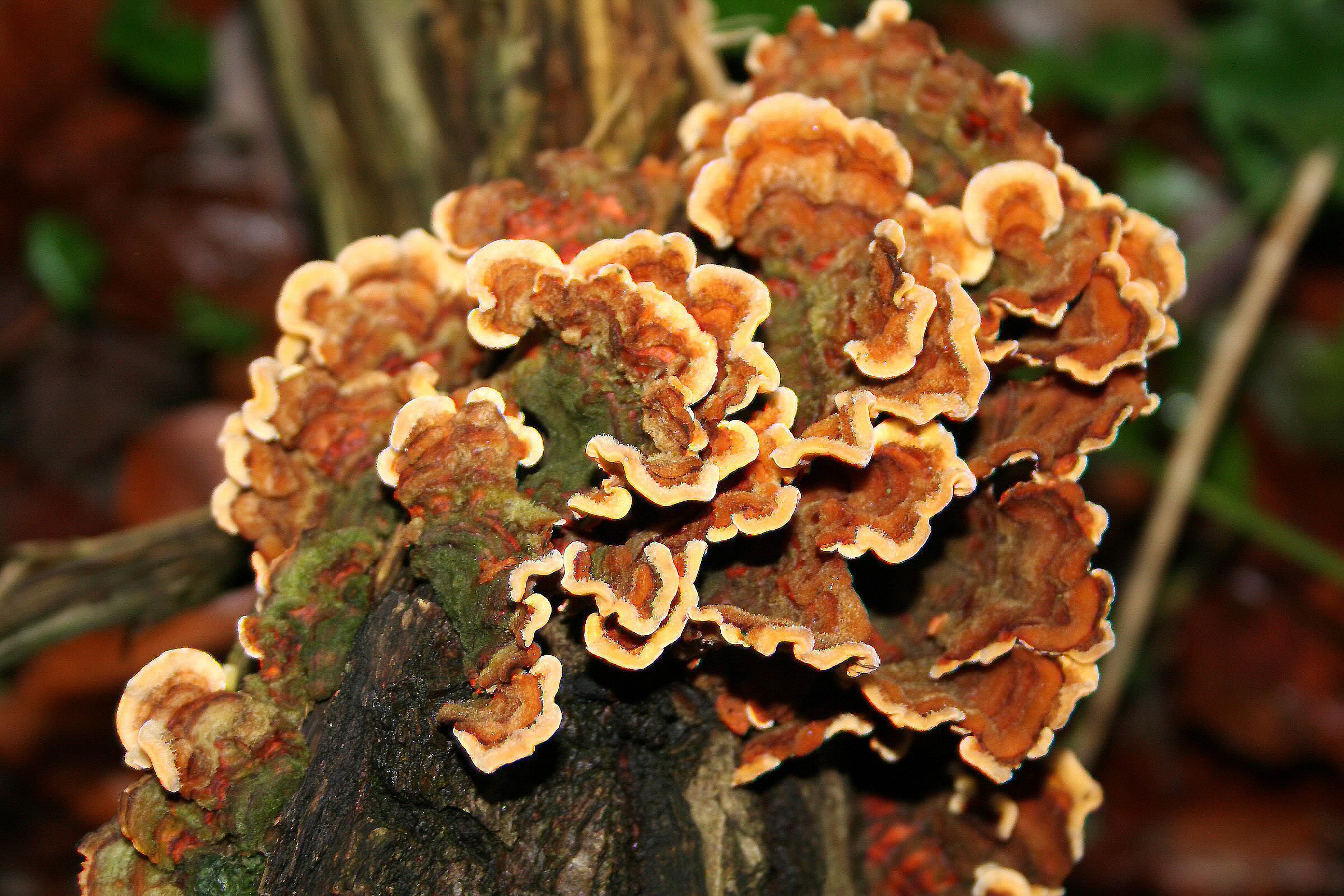 Bleeding Oak Crust